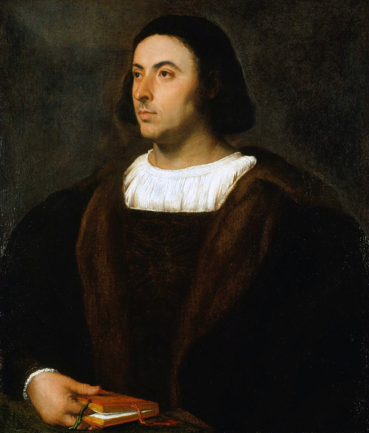 Previously identified as: Anonymous man with a book in his hand Alessandro di Giuliano de' Medici, Duke of Tuscany Giovanni Boccaccio (1313-1375) Pietro Aretino (1492-1556)